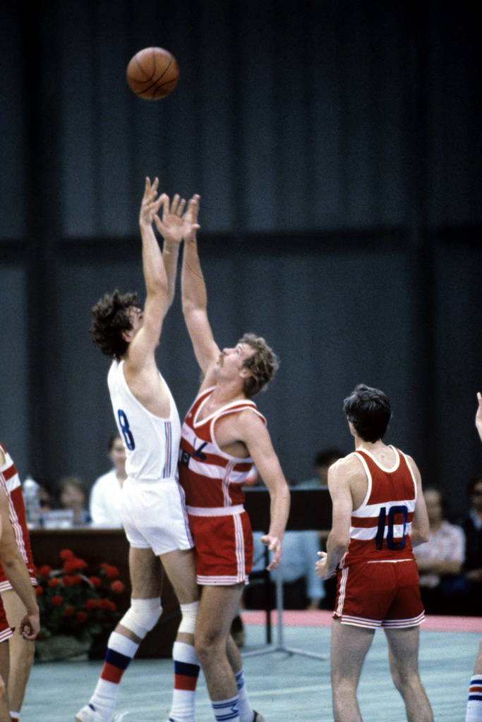 “1980 Olympic Games. Basketball. USSR vs. Czechoslovakia”. The 22nd Olympic Games. Basketball. USSR (Stanislav Eremine #4; Sergei Belov #10) vs. Czechoslovakia (Stanislav Kropilák #8).